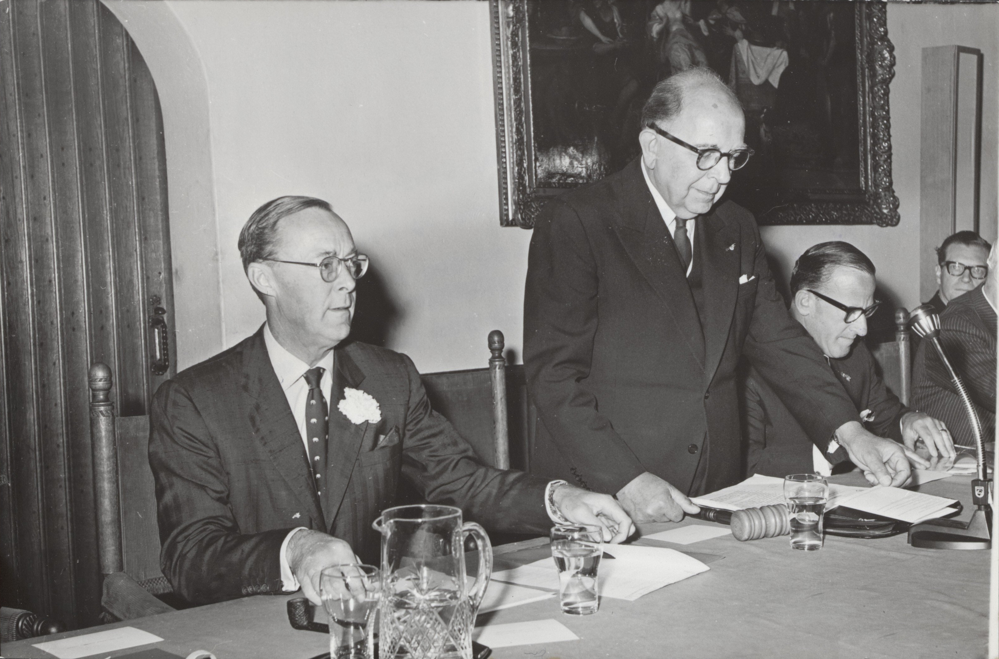 Left to right: prince Bernhard von Lippe Bisterfeld, Dutch civil servant Daniel Johannes von Balluseck, two unknown persons. The Hague, "rolzaal", 25 May 1965